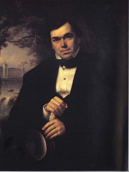 Portrait of Aleksey Khludov (1818-82)